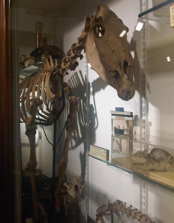 One of only seven Quagga or Cape Quagga (Equus quagga quagga) skeletons in the world, Grant Museum of Zoology, London, England.